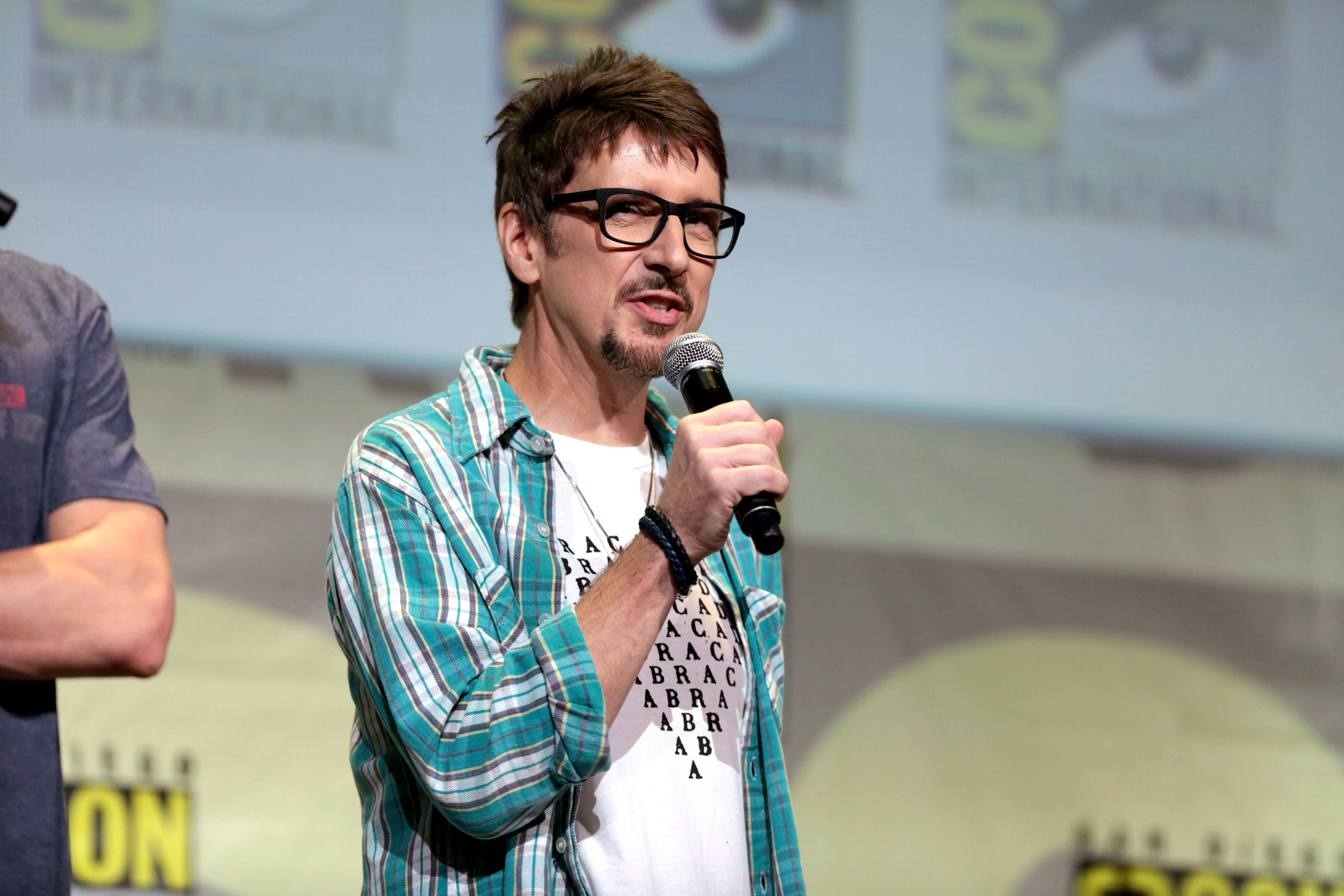 Scott Derrickson speaking at the 2016 San Diego Comic Con International, for "Doctor Strange", at the San Diego Convention Center in San Diego, California.